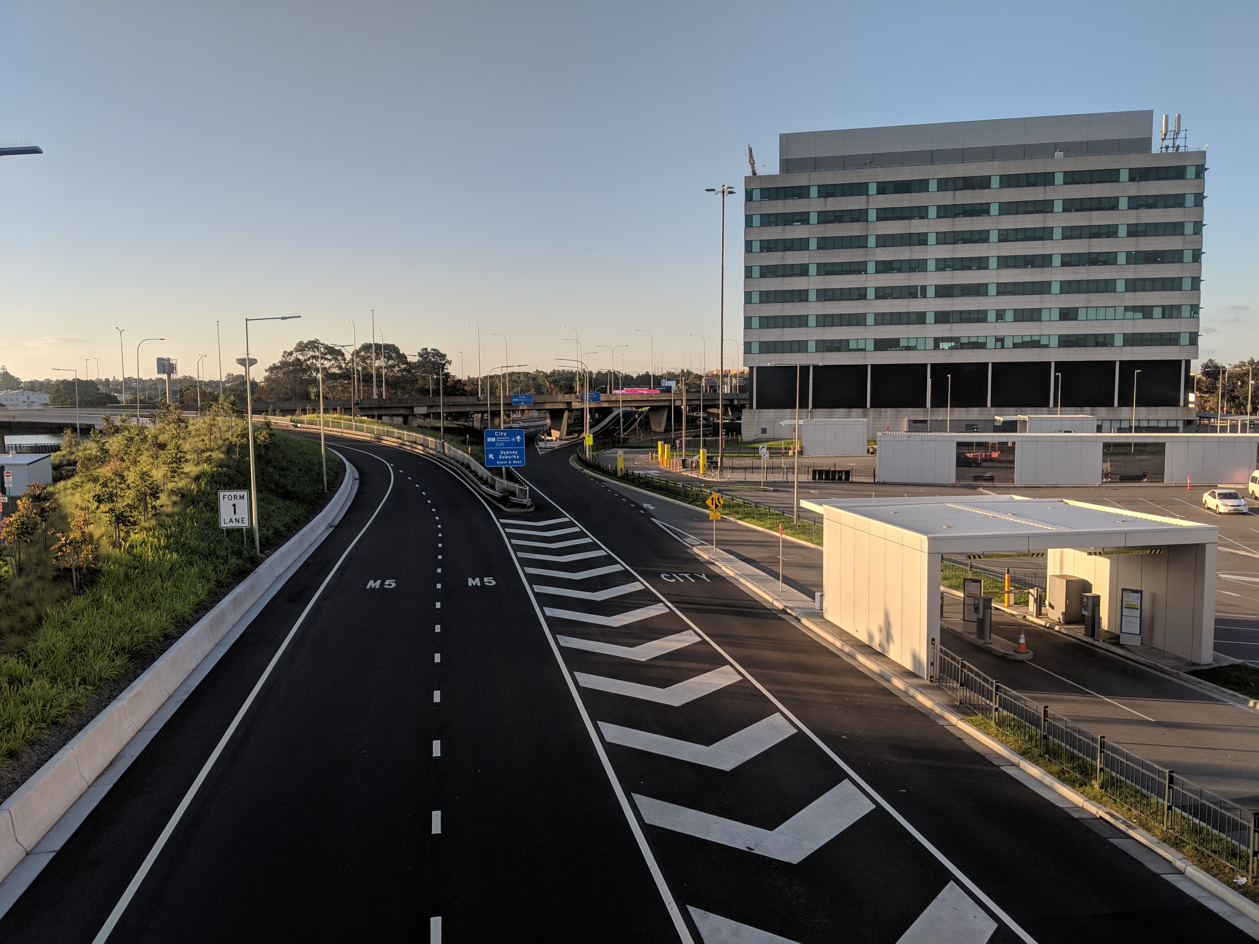 Roadway exit from Sydney Airport